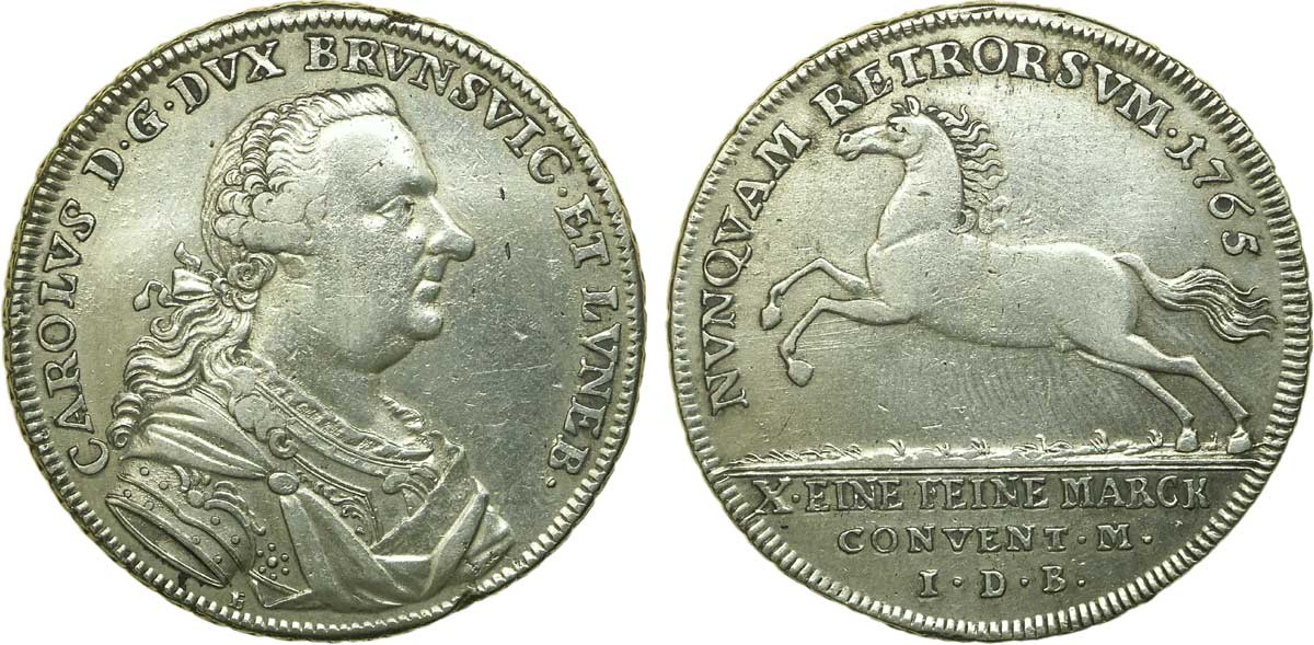 Germany, Principality of Brunswick-Wolfenbüttel, Charles I as Prince of Brunswick-Wolfenbüttel 1735-1780. Ag 1 Thaler Conventionsmünze 1765 (37mm, 28g). Obverse: Unclad portrait from the right. Reverse: Saxon Steed, in exergue: X EINE FEINE MARK / CONVENT•M• / I•D•B•. Welter 2716.